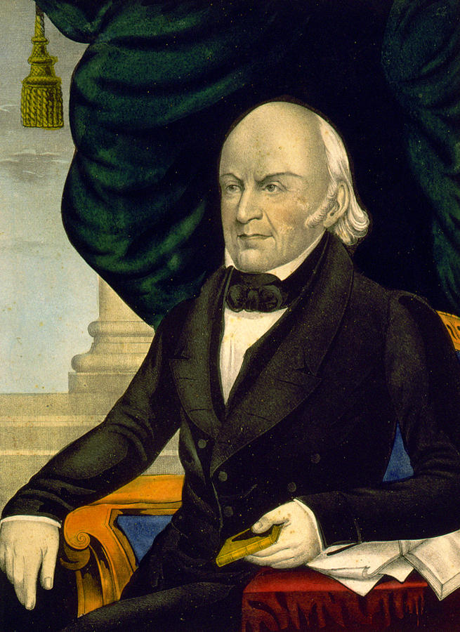 John Quincy Adams, sixth President of the United States, half-length portrait, seated, facing left, holding small book in left hand. Hand-colored lithograph.